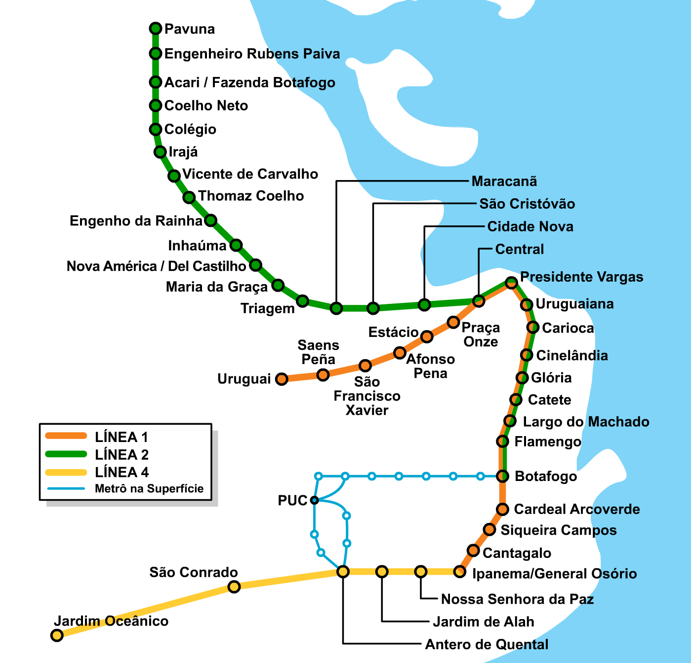 Map of the subway network of Rio de Janeiro, Brazil